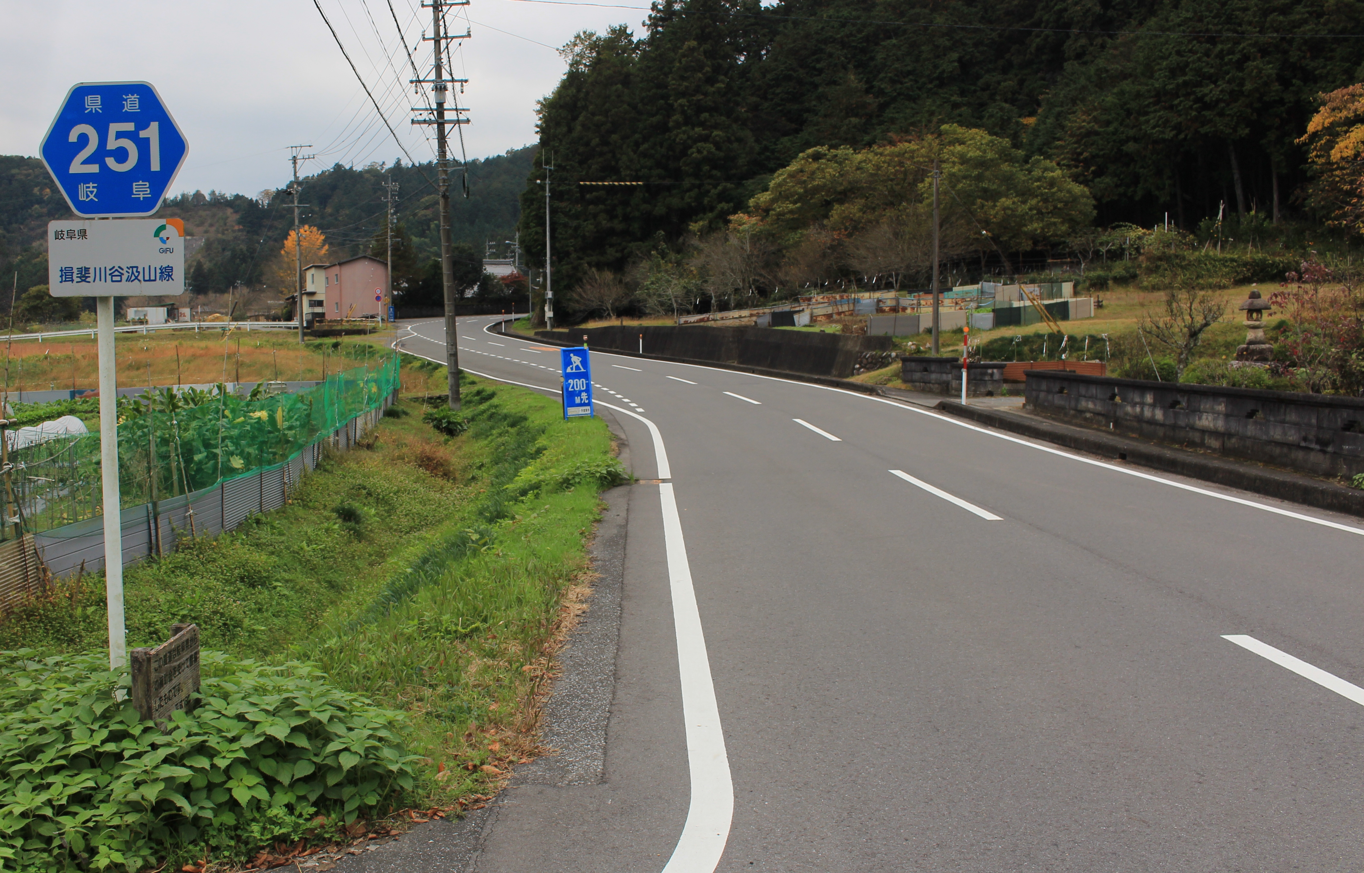 Gifu Prefectural Road Route 251 in Tanigumihukasaka, Ibigawa, Gifu prefecture, Japan.